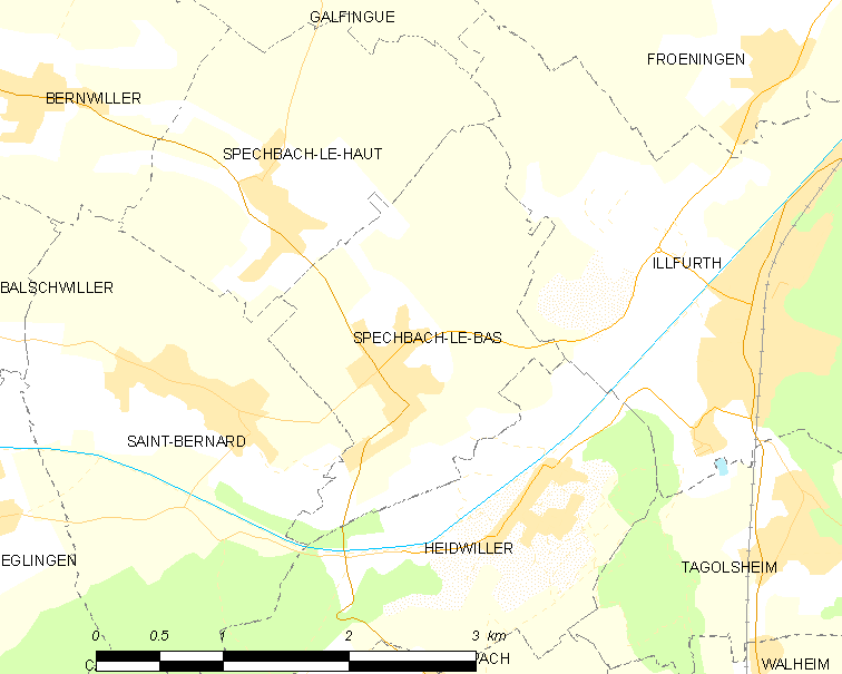 Map of French municipality